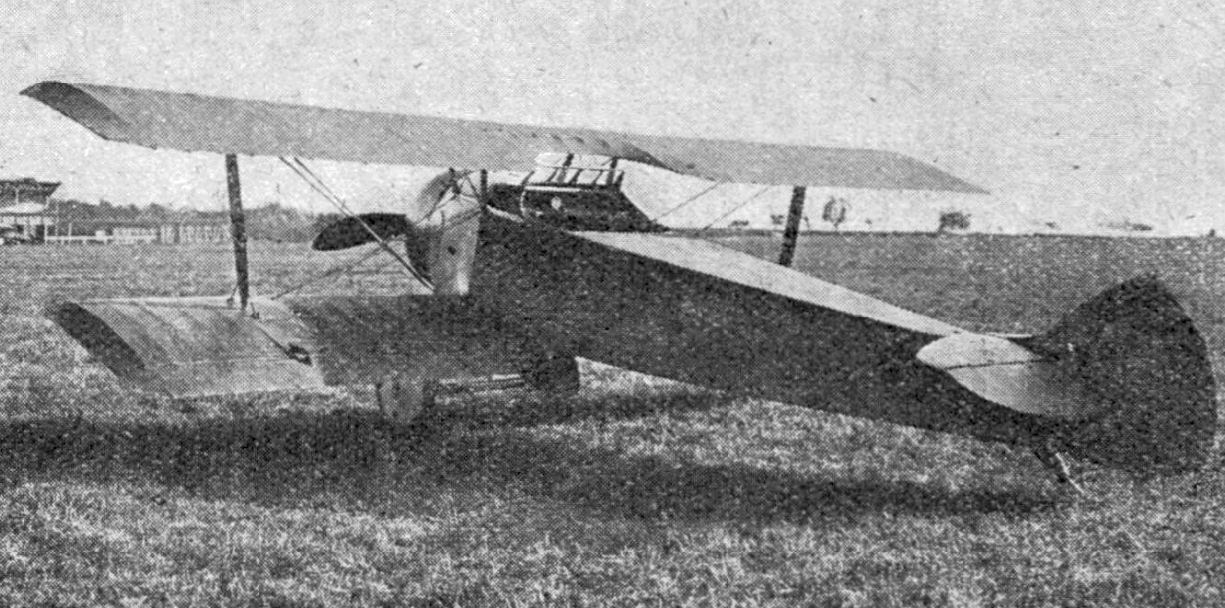 Bleriot SPAD S.34 photo from L'Aéronautique January 1921